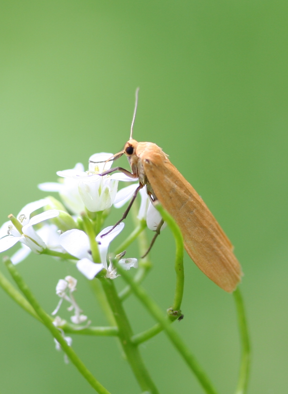 Eilema_sororcula on Alliaria petiolata 3 June 2006 IJmuiden, the Netherlands